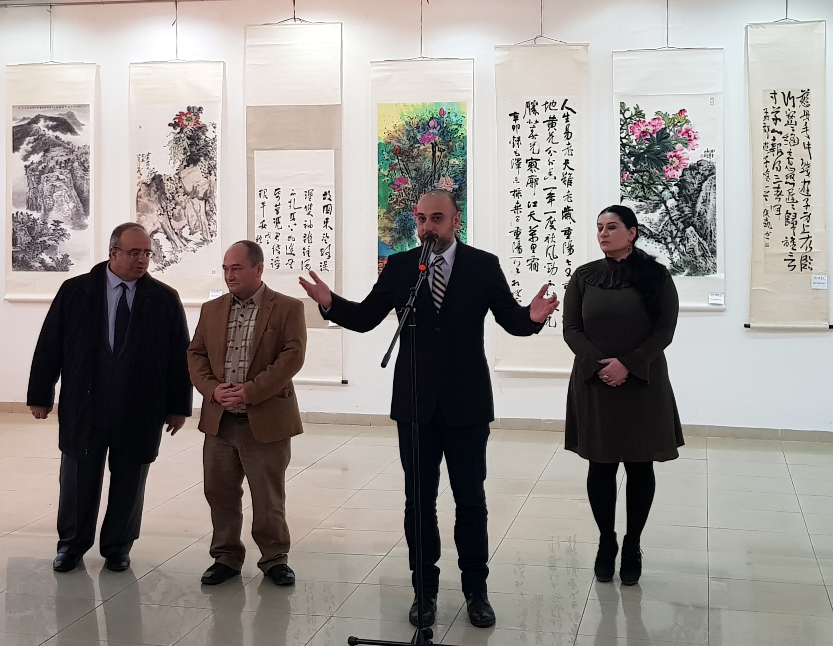 "New Silk Road" exhibition is dedicated to the Chinese New Year. Among the exhibited collection of paintings and drawings from the city of Nanjing, the artworks of five Armenian masters of watercolor are also being exhibited.